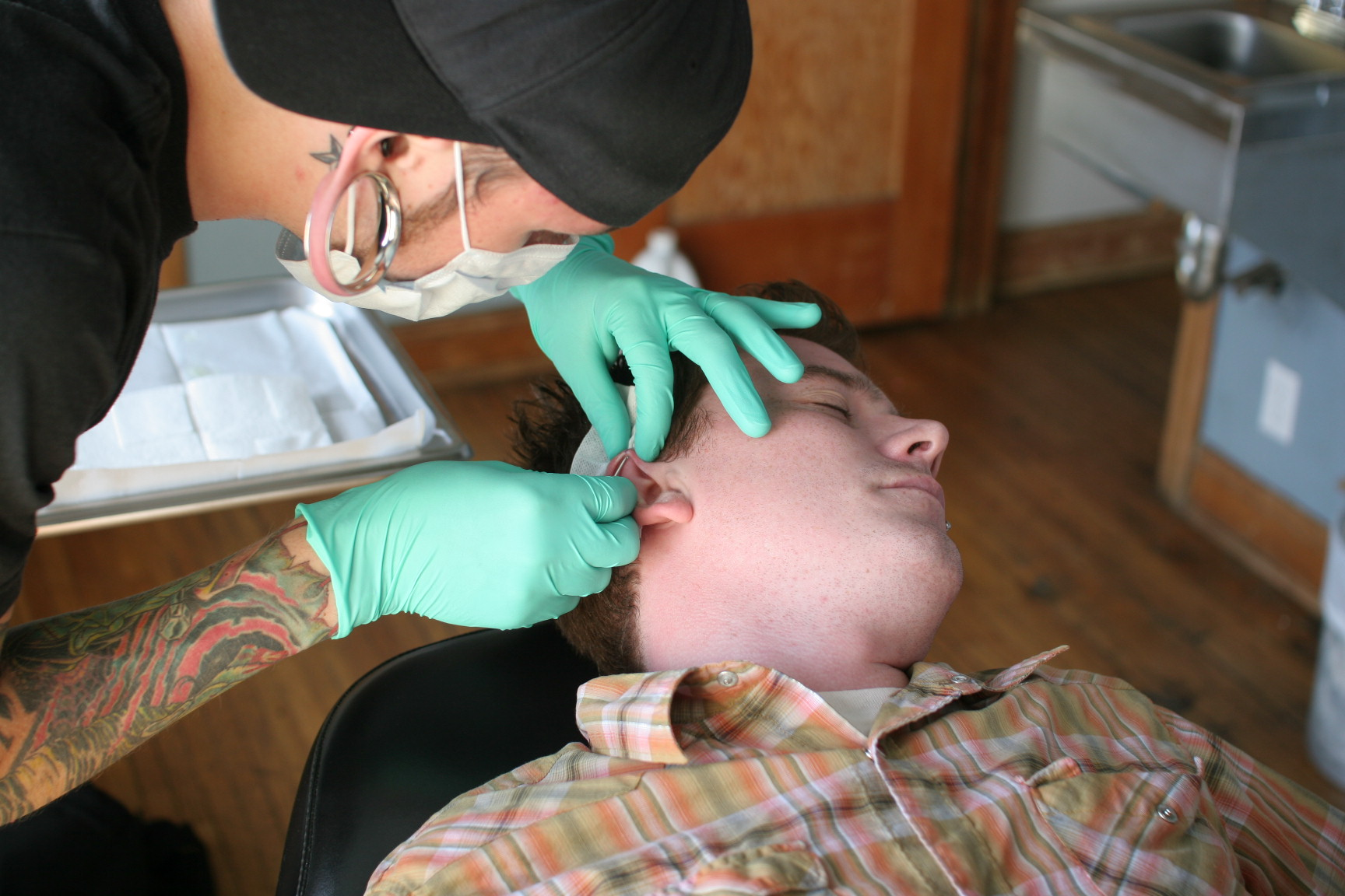 piercing helix